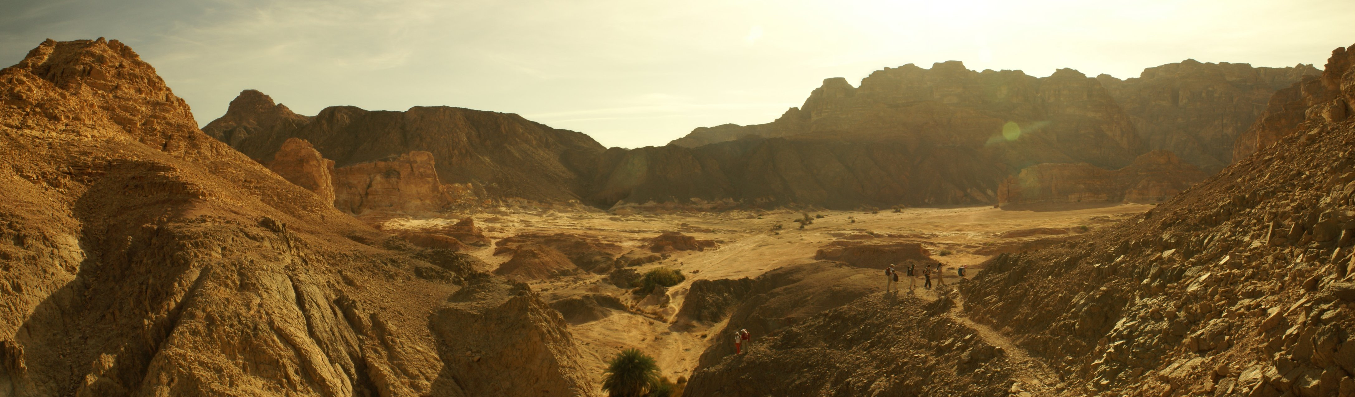 A panoramic image of a plateau in the Sinai Desert, Egypt. A group of hikers can be seen in the right part of the photo. Later in the same day, this group would chose a location on this plateau as overnight camp. The spot is behind the large wall of rock on the farther side of the plateau.